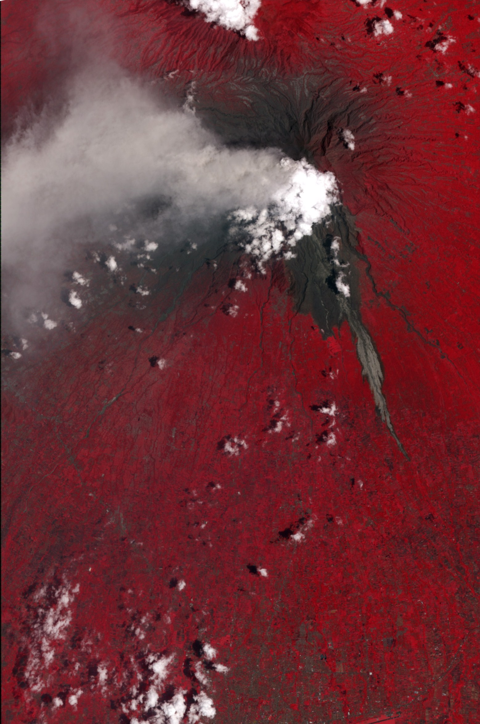 This false-color satellite image shows evidence of a large pyroclastic flow along the Gendol River south of Mount Merapi. Light gray volcanic deposits (either from pyroclastic flows or lahars) fill the course of the Gendol. Just north of the Merapi Golf Course (light red feature) is a much wider area where a pyroclastic flow spread across the landscape, causing almost total devastation. Within this dark gray area, most of the trees were knocked down and the ground was coated by ash and rock. The flow deposits are largely surrounded by healthy vegetation, colored bright red. A light gray ash plume extends the west of the volcano, guided by the prevailing winds. Near the plume, heavy ash-fall has coated the fields and forests, coloring them dull red to gray.